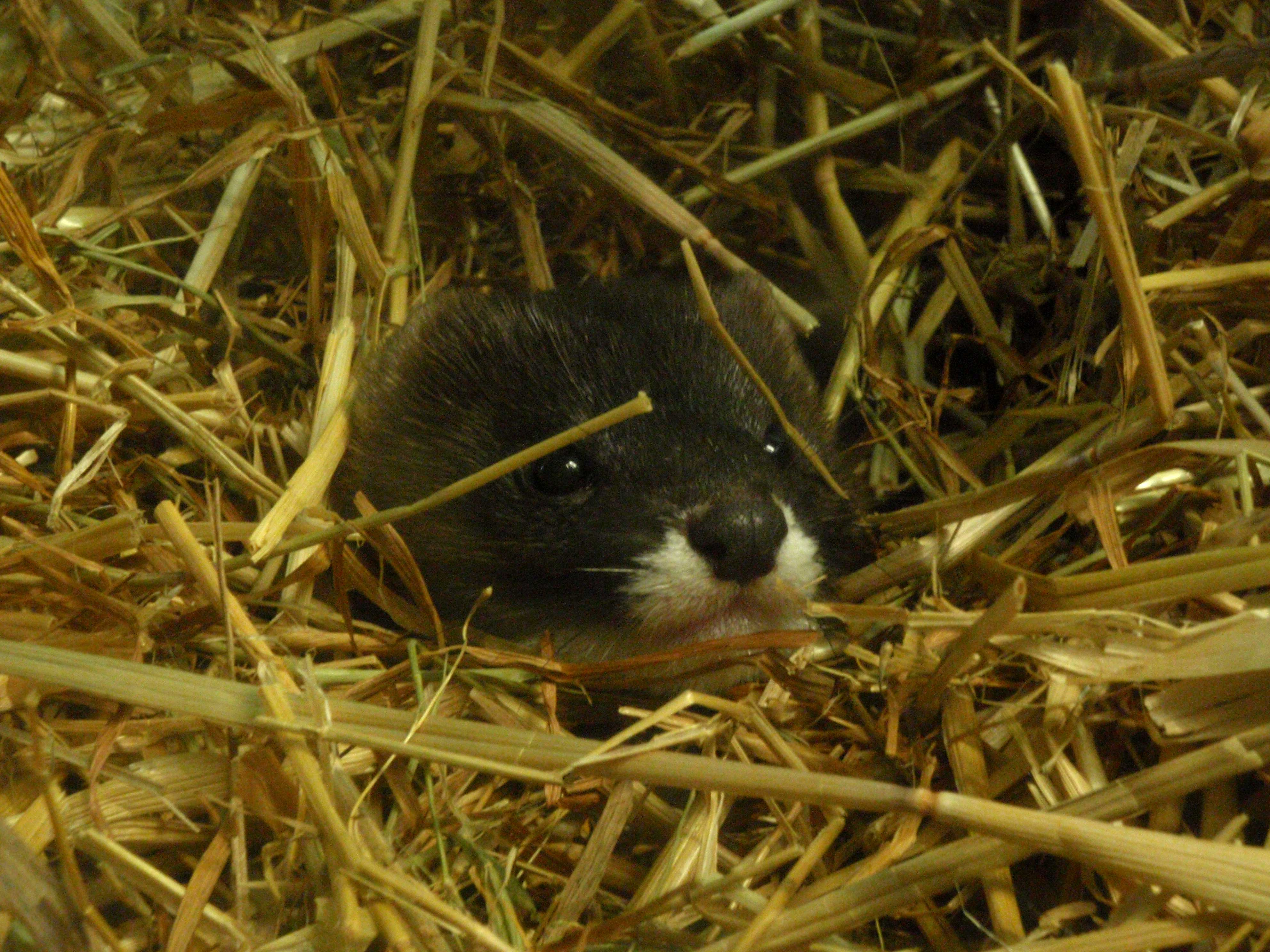 European Mink.